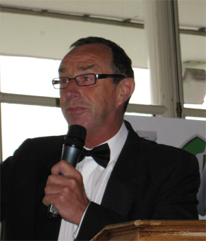 Former cricketer, now commentator, David Lloyd at Lord's